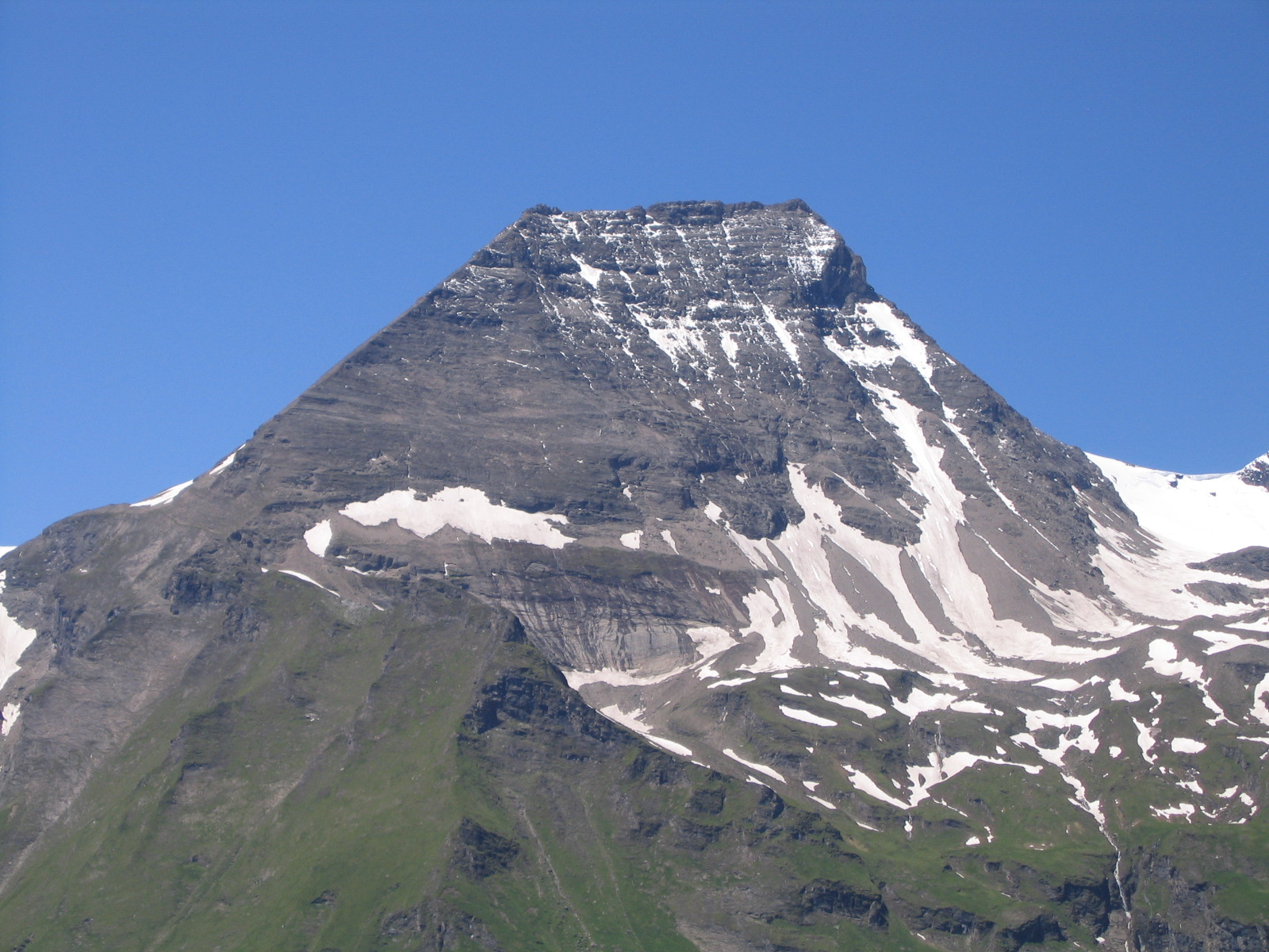 The Hohe Dock, a striking mountain in the Glockner Group in the Austrian Alps. Taken from the Großglockner High Alpine Road.